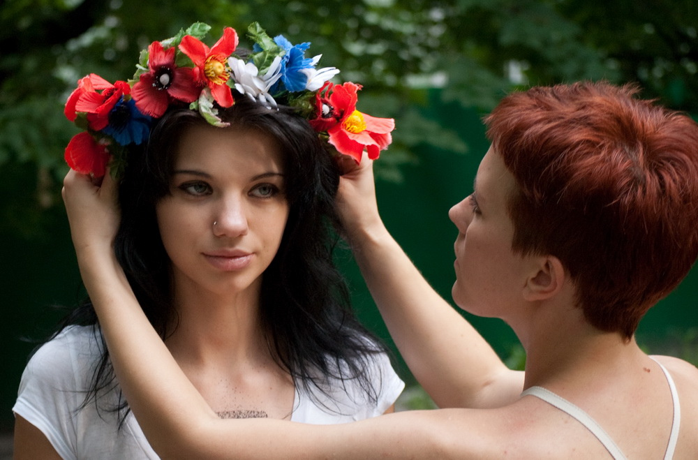 FEMEN's leader Anna Hutsol dresses a wreath on the head of the other activist preparing to crucify herself in front of Sofia Kievska Church to protest against anti-ukrainian politics of Moscow Patriarchy headed by Patriarch Kirill who is on official visit to Ukraine 26-28 July 2010